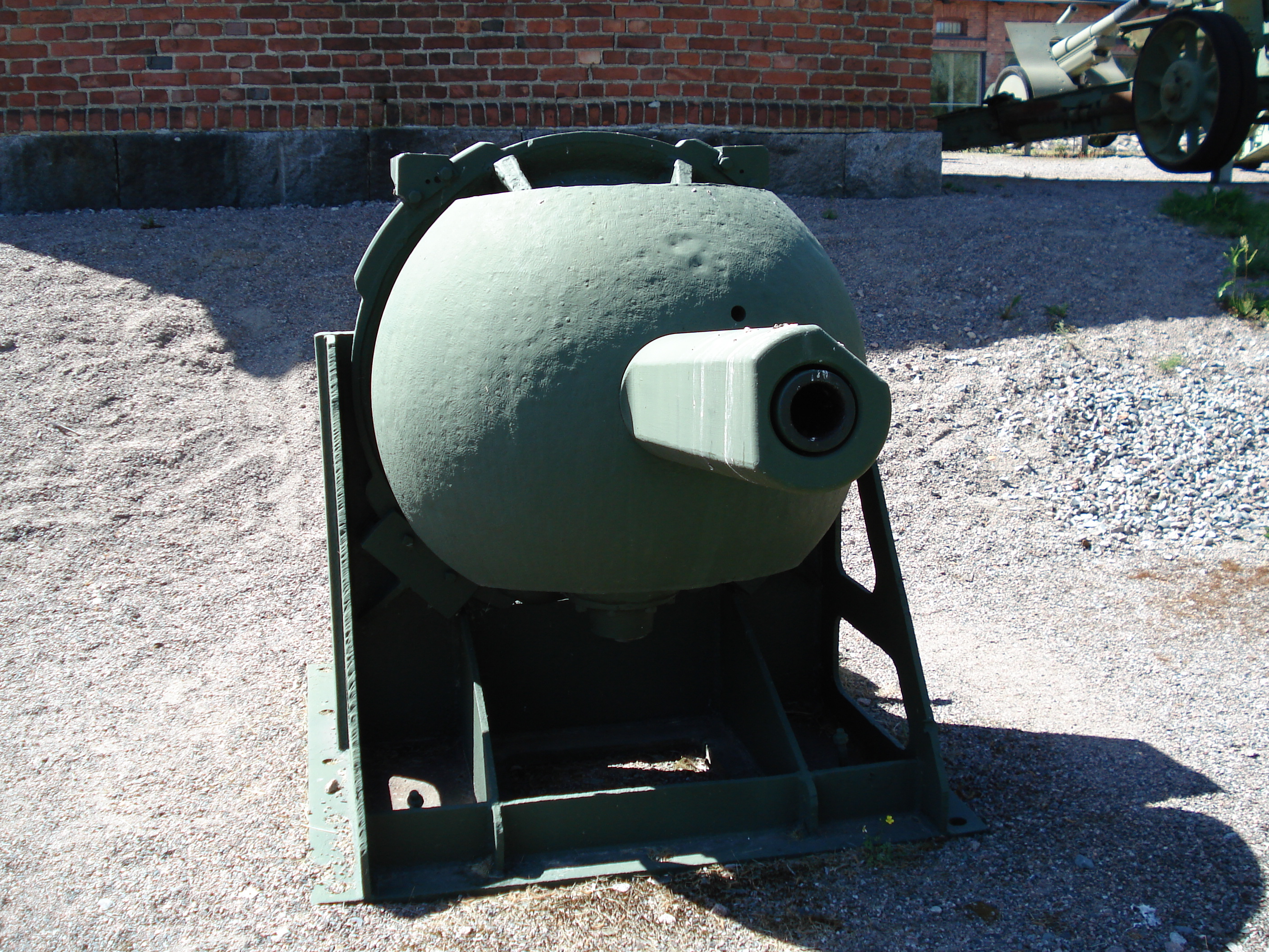 Soviet 76-mm bunker gun (Капонирное орудие Л-17), Finnish designation 76K27K, displayed in Finnish Artillery Museum